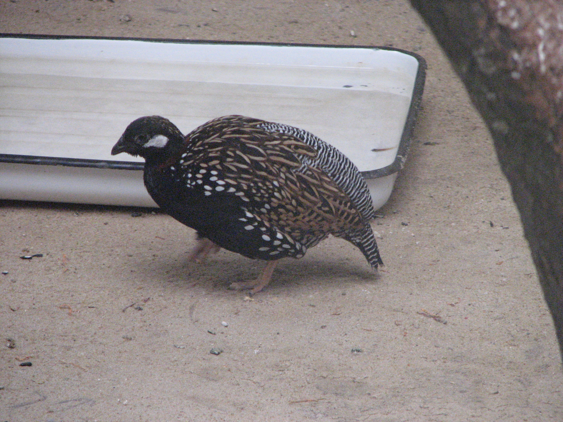 Black Francolin in Silesian Zoological Garden (Chorzów, Poland)